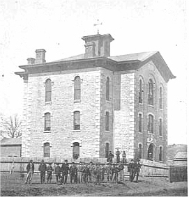 Minnesota Historical Society. Photographer: Rodolph W Ransom. Photo dated 1865. Copyright belongs to Minnesota Historical Society, Permission to reproduce required. Cropped and brightened. Caption typed on picture not visible due to cropping: "Franklin School, St. Paul." or go to and search Collections for "Franklin School St. Paul".